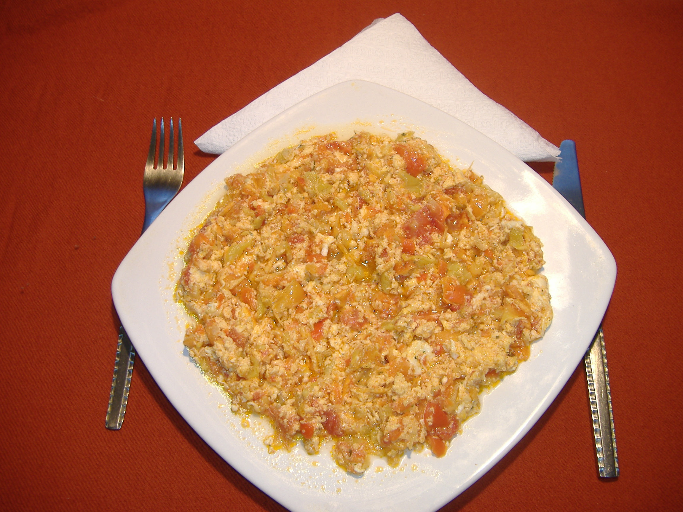 Lecsó (pronounced "LETCH-oh"), a Hungarian thick vegetable stew.